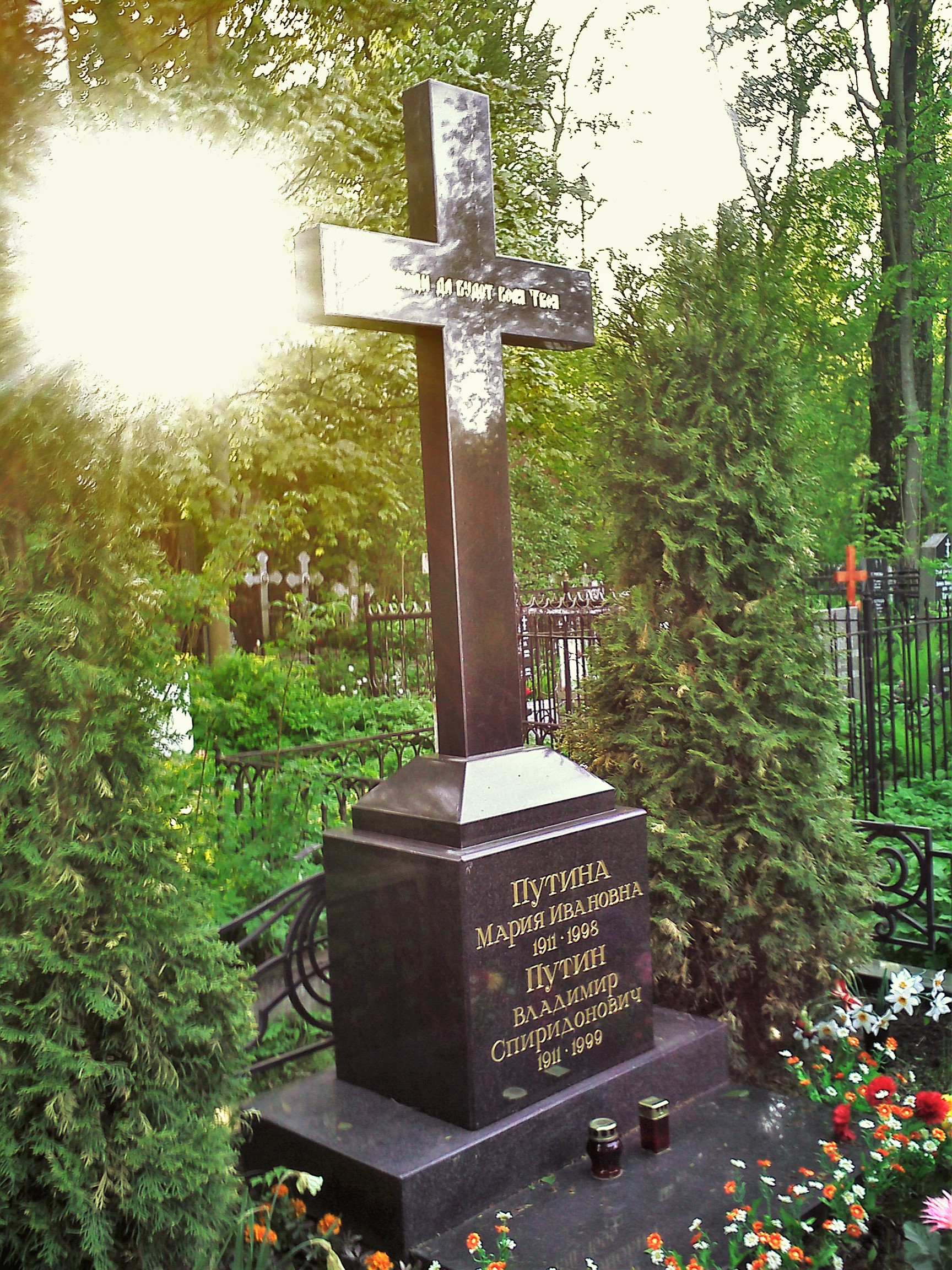 Grave of Vladimir Putin's parents Maria Ivanovna Shelomova (1911-1998) and Vladimir Spiridonovich Putin (1911-1999) at the Serafimovskoye cemetery in Saint Petersburg, Russia.